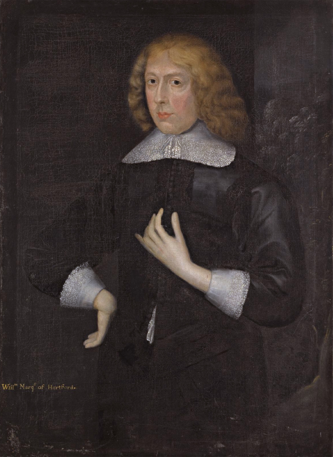 William Seymour, Marquess of Hertford, later Duke of Somerset (1588-1660) 107 by 76 cm inscribed lower right: William Marqs. of Hertford oil on canvas